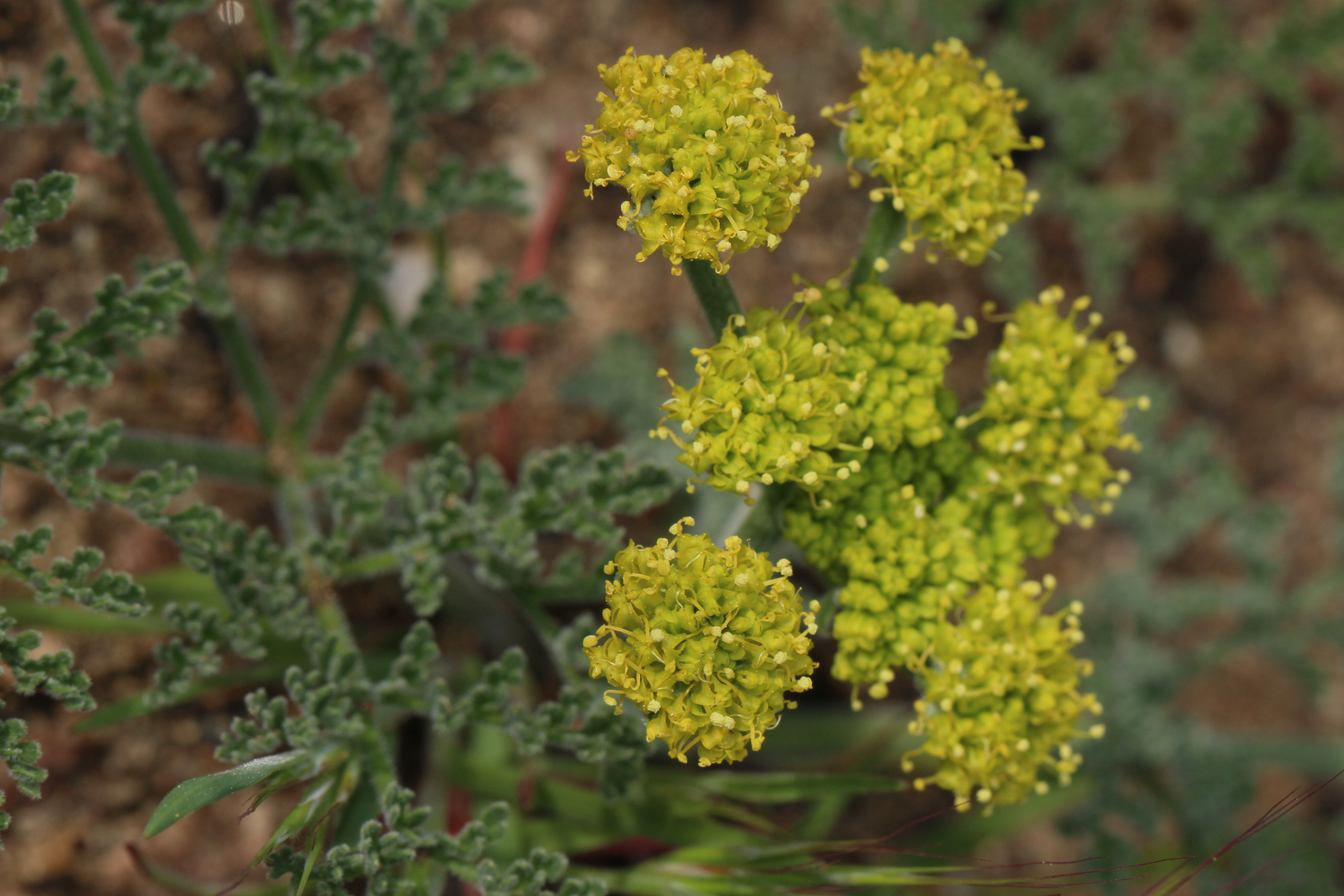 Mojave Desert Parsley Identification by: Linda Edwards and Vern Benhart Viewpoint location: Dry wash west of Godde Hill Road, 150 m north of Hacienda Ranch Road; Lancaster, California Viewpoint elevation: 949 meter (3115 ft) Location source: Garmin GPSmap 60CSx Location Datum: WGS84